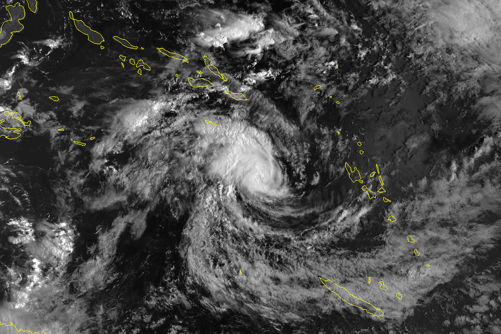 Tropical Cyclone Katrina, while not as intense as the two concurrent cyclones Ron and Susan father east, certainly became the longest lived cyclone of the Southern Hemisphere. Katrina wandered along on a contorted track for over three weeks across the Coral Sea and South Pacific. One fatality was reported in Vanuatu when a man fishing from a reef was swept away. 200 homes were destroyed on southern Guadalcanal and 450 homes lost on the islands of Rennel and Bellona.